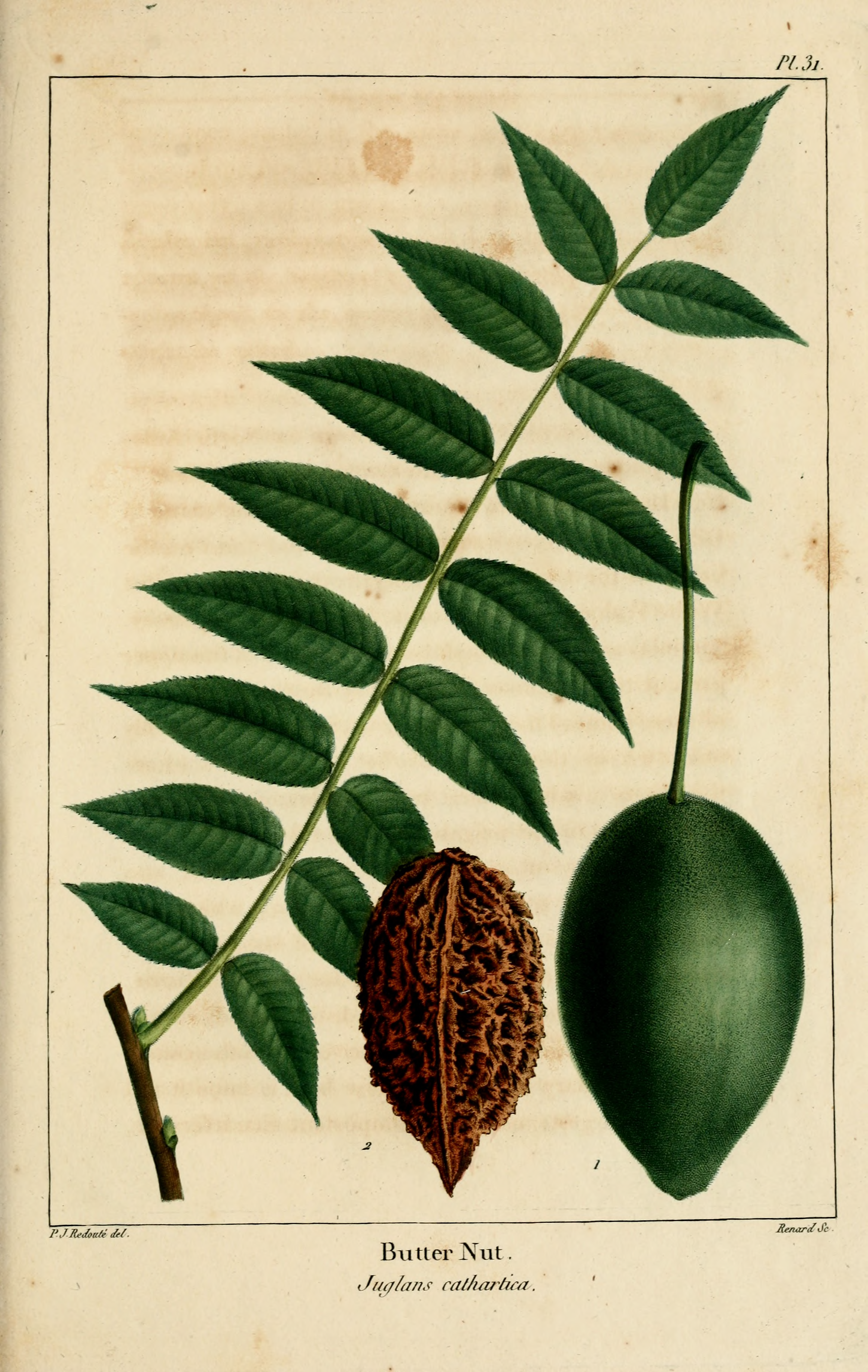 Plate 31 from The North American sylva. Juglans cinerea (caption: Butter Nut. Juglans cathartica.